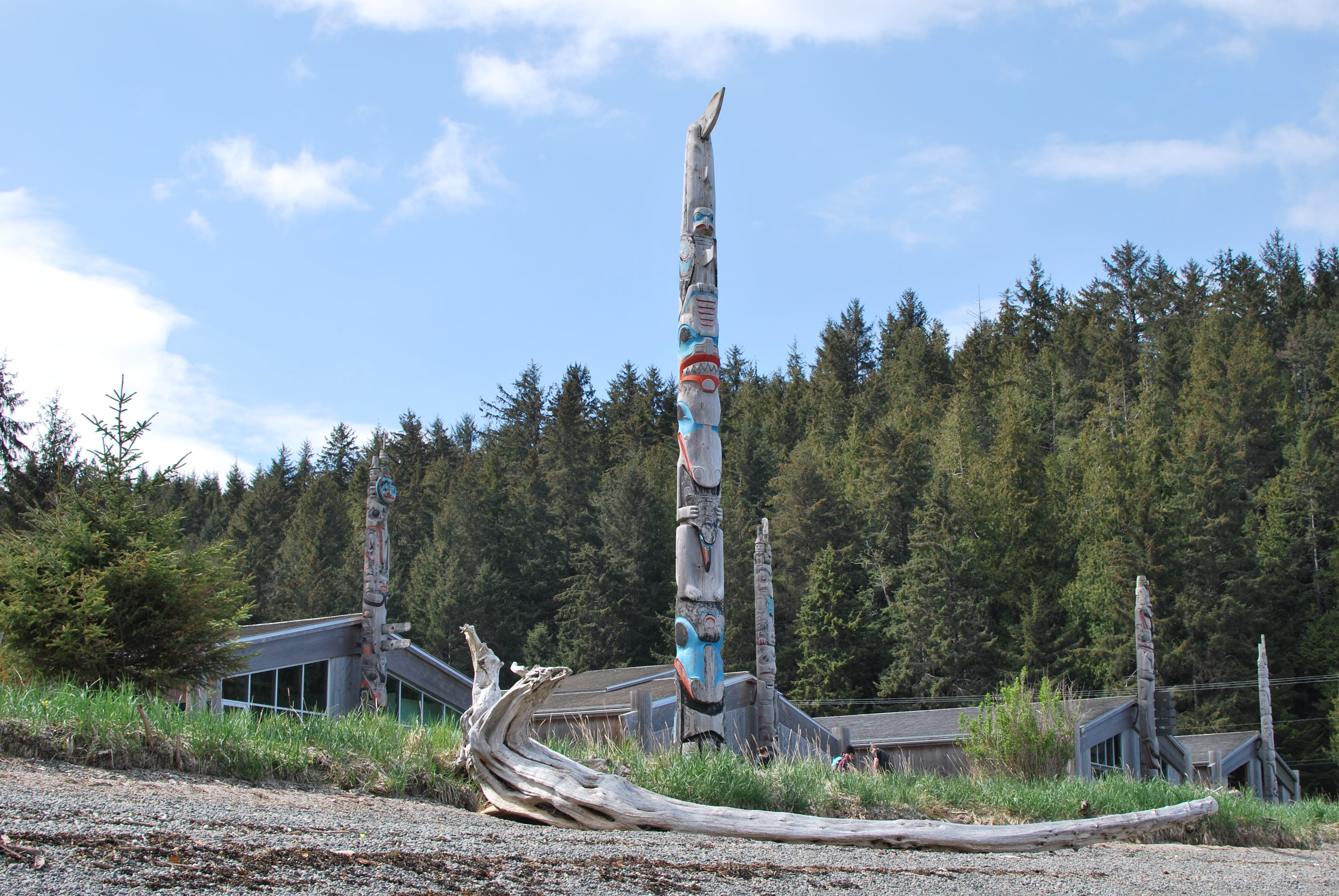 Totem Poles at the Haida Heritage Centre in Kay Llnagaa in Skidegate, Haida Gwaii.